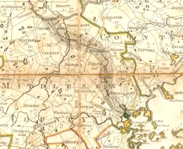 Map of the Middlesex Canal, Middlesex County, Massachusetts, 1801. This map was published about 1 year before the canal opened for boat traffic.